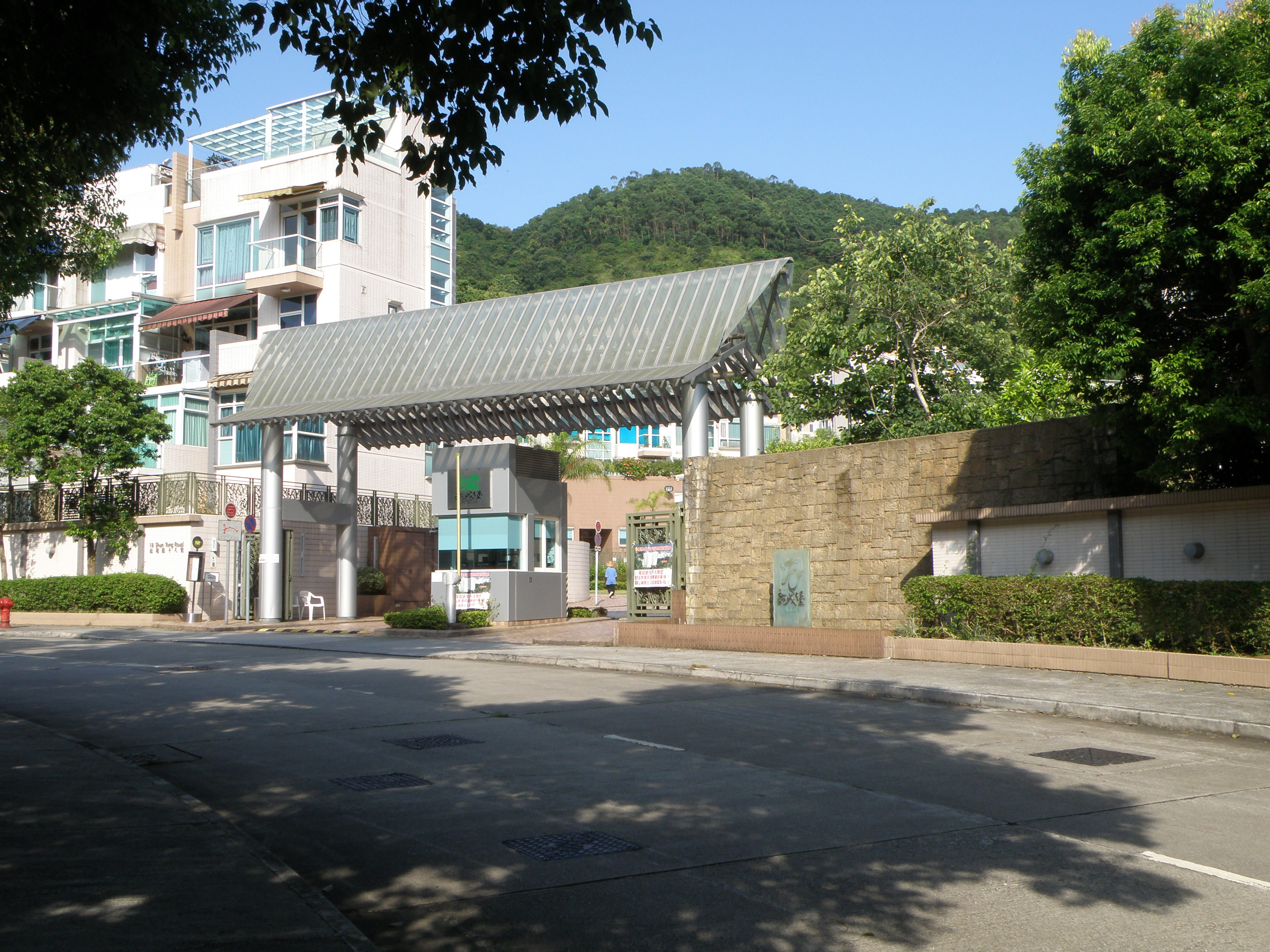 JC Castle in Tai Po, Hong Kong.